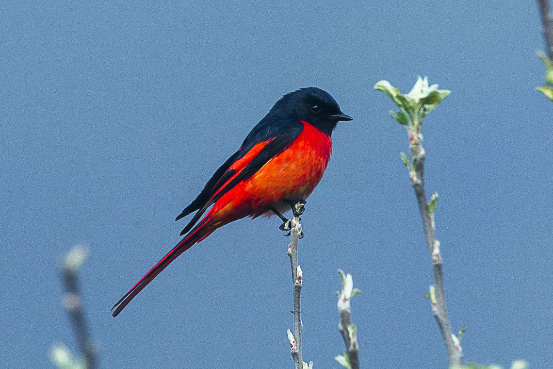 Short-billed Minivet - Bhutan_S4E8323